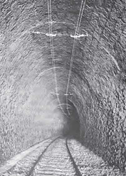 Construction of double pole catenary in Simplon Tunnel